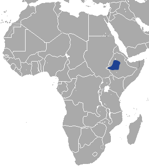 Ethiopian Hare (Lepus fagani) range